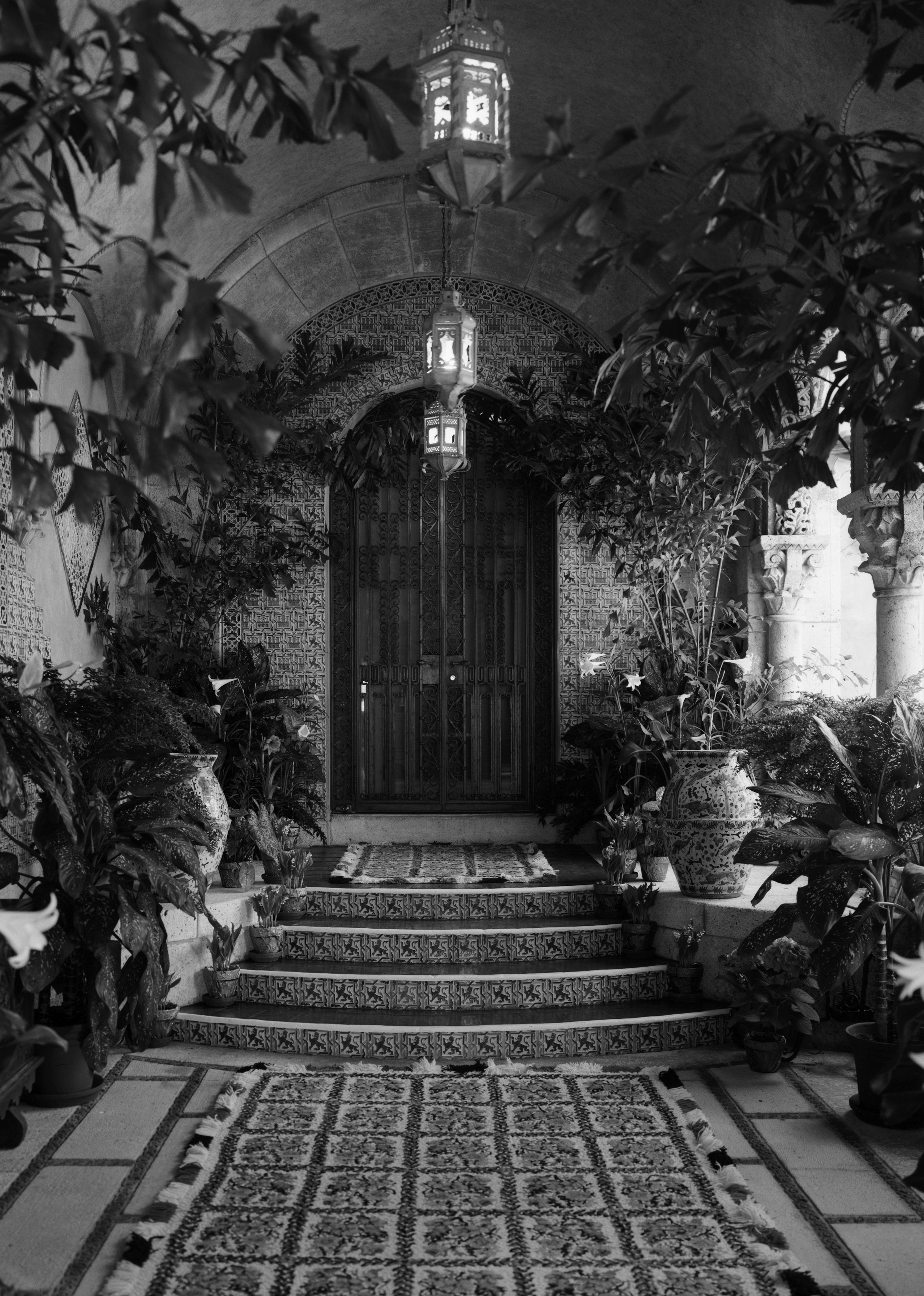 Mar-A-Lago 1100 South Ocean Boulevard, Palm Beach, Palm Beach County, FL: ENTRANCE TO OWNER'S SUITE FROM CLOISTER